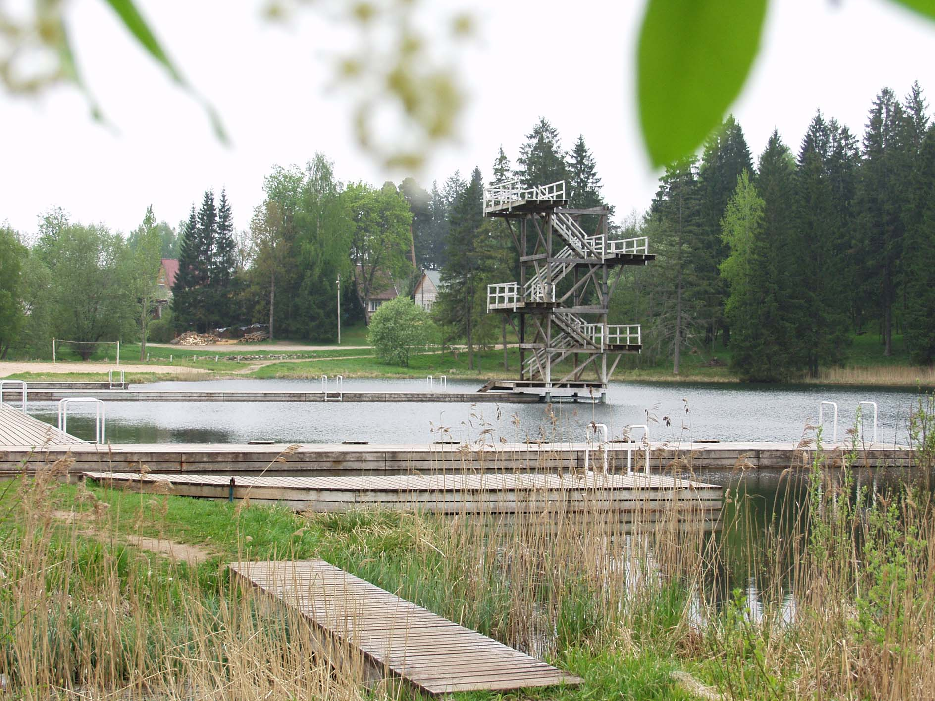 Lake Vanamõisa